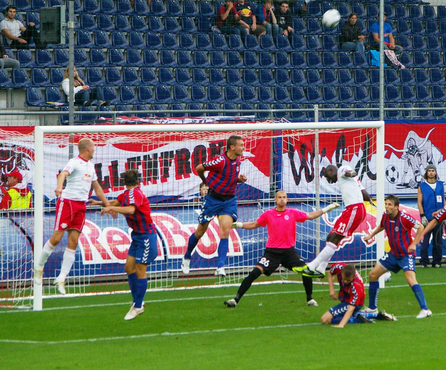 Salzburg-Senica EL qualifier